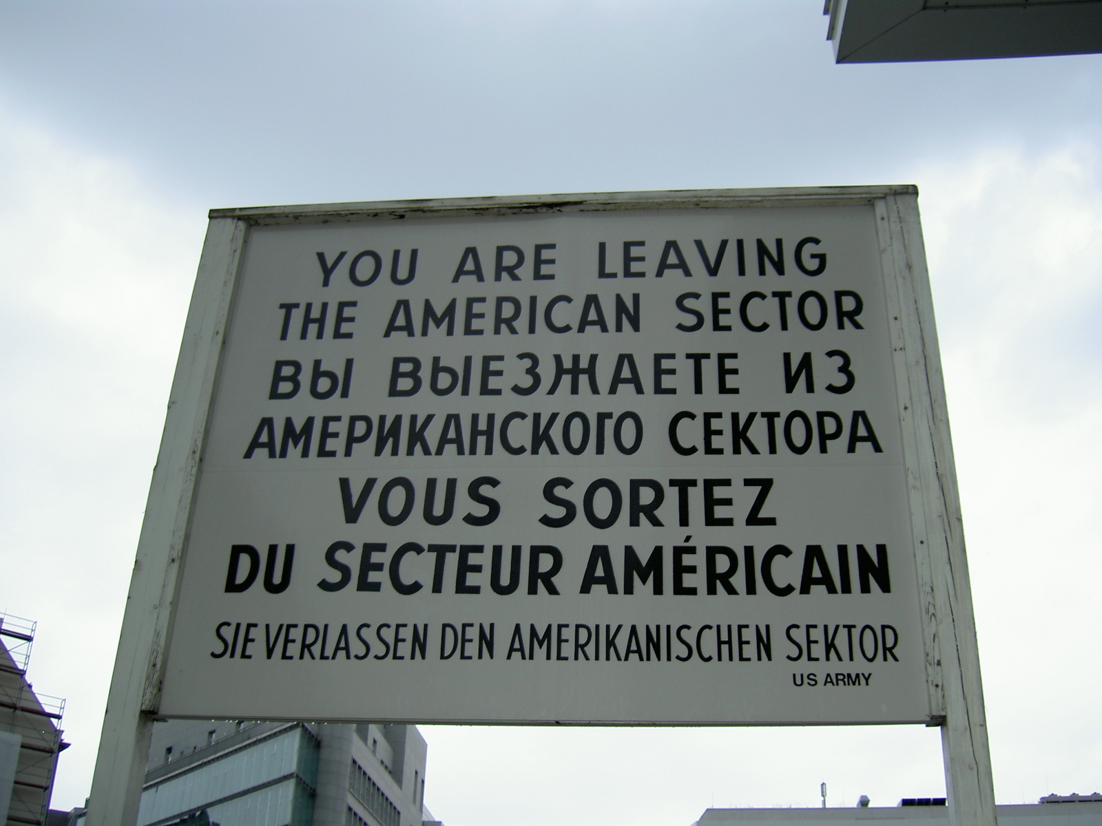 Checkpoint Charlie.